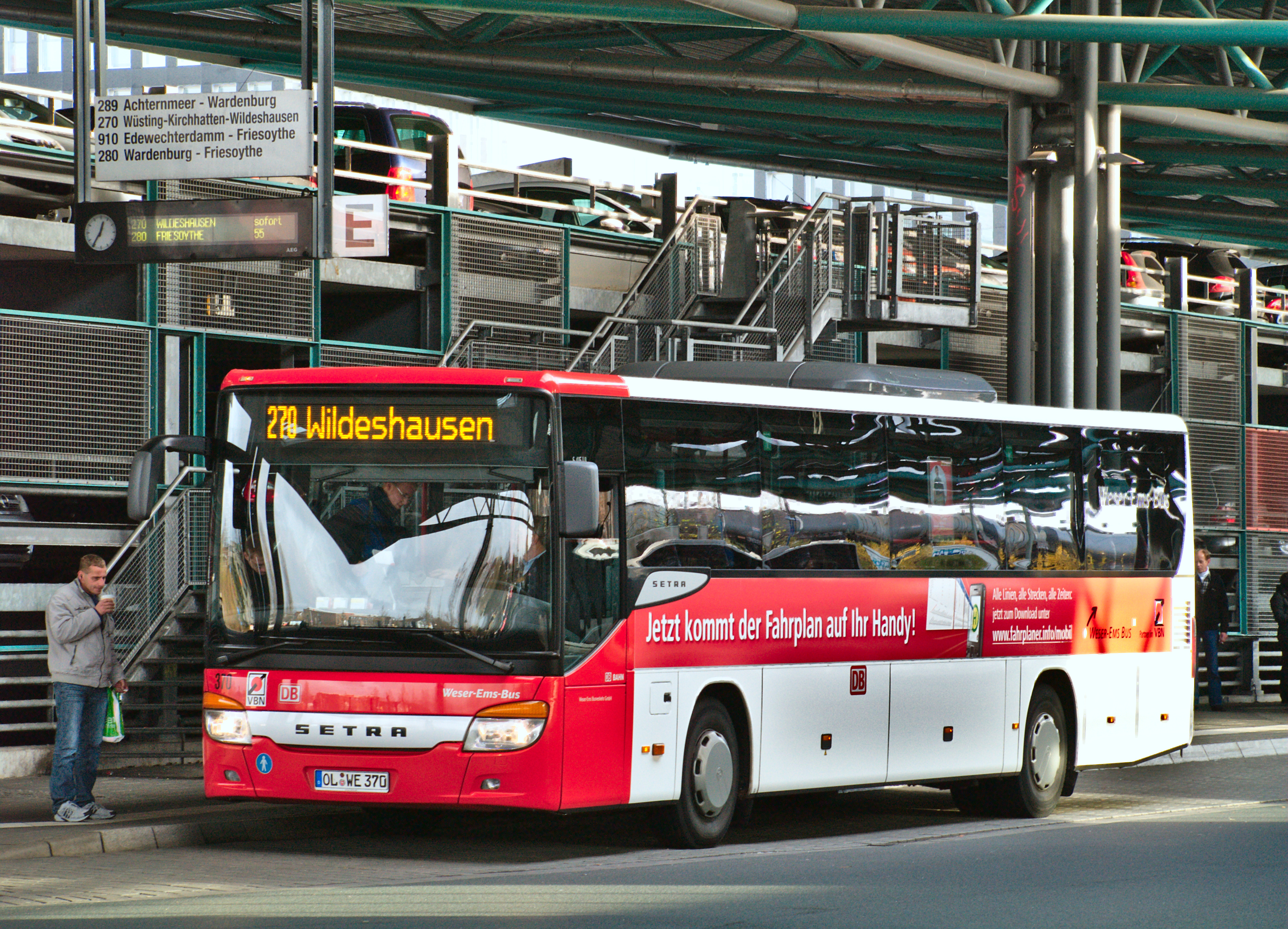 A Setra S 415 UL bus operated by Weser-Ems-Bus on route 270 (Oldenburg → Wildeshausen) is waiting for passengers in the bus terminal of Oldenburg, Germany.